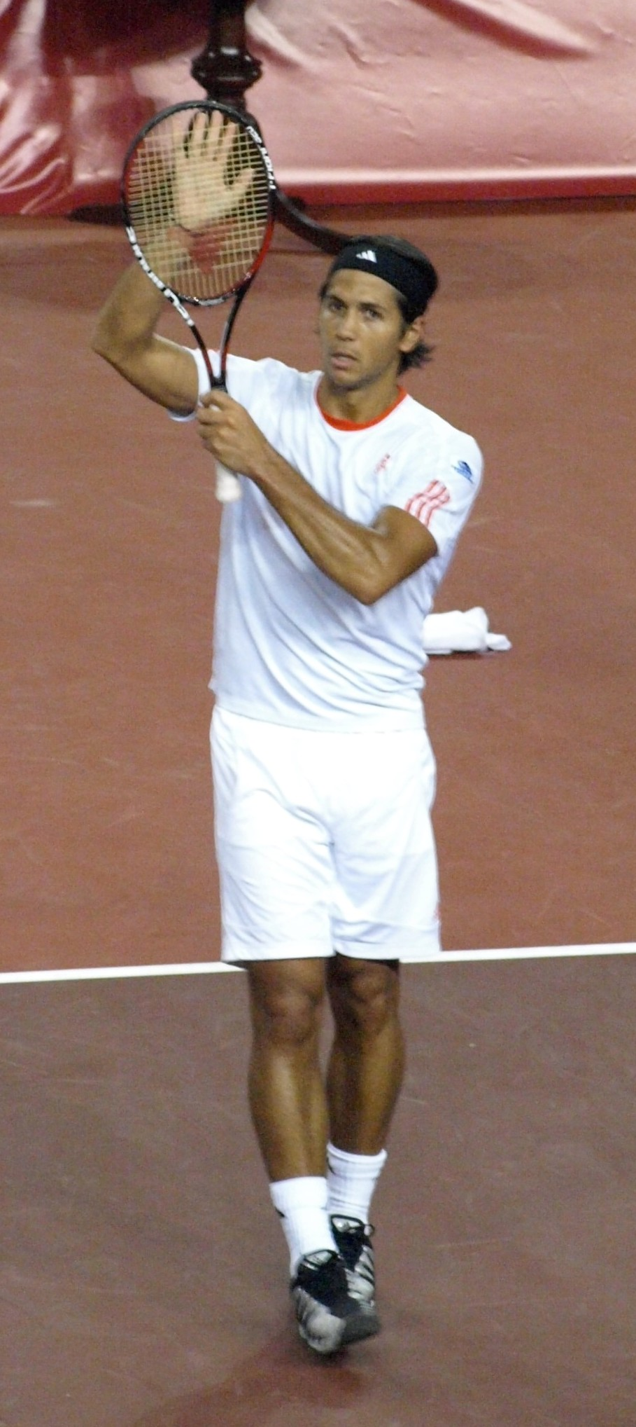 crop of Image:Fernando Verdasco.JPG